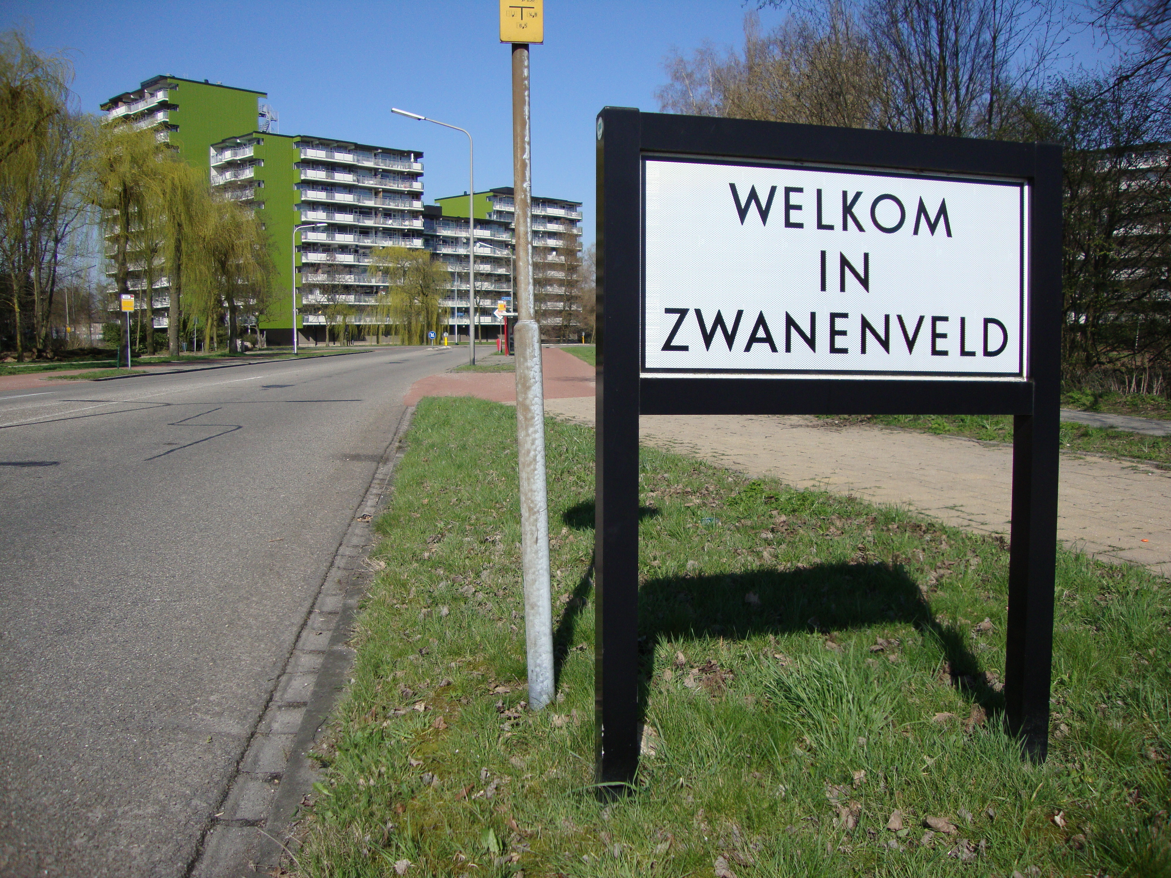 Nijmegen Dukenburg, welcome sign Zwanenveld